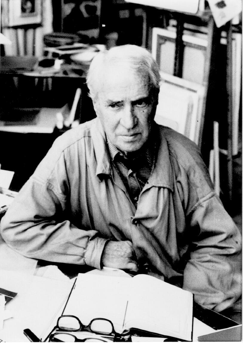 Photo the last of the Great Painter Marino Tartaglia taken in his Zagreb Atelier